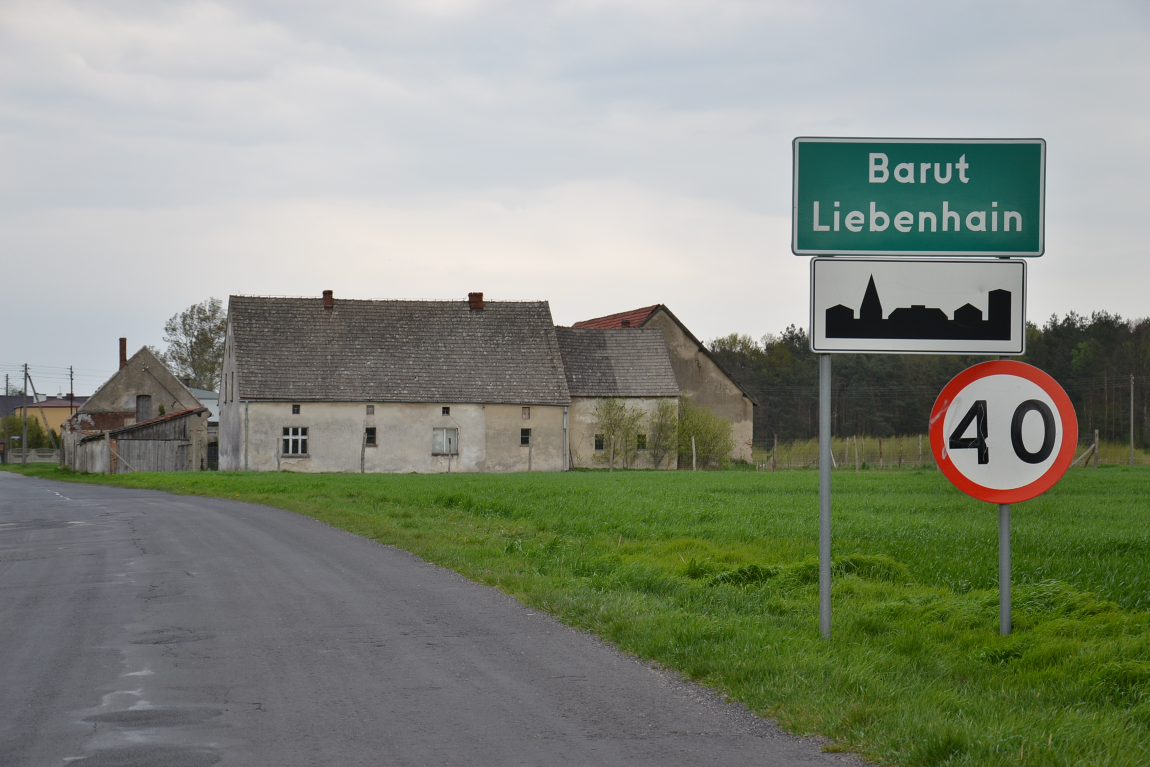 Barut (Liebenhain), Upper Silesia